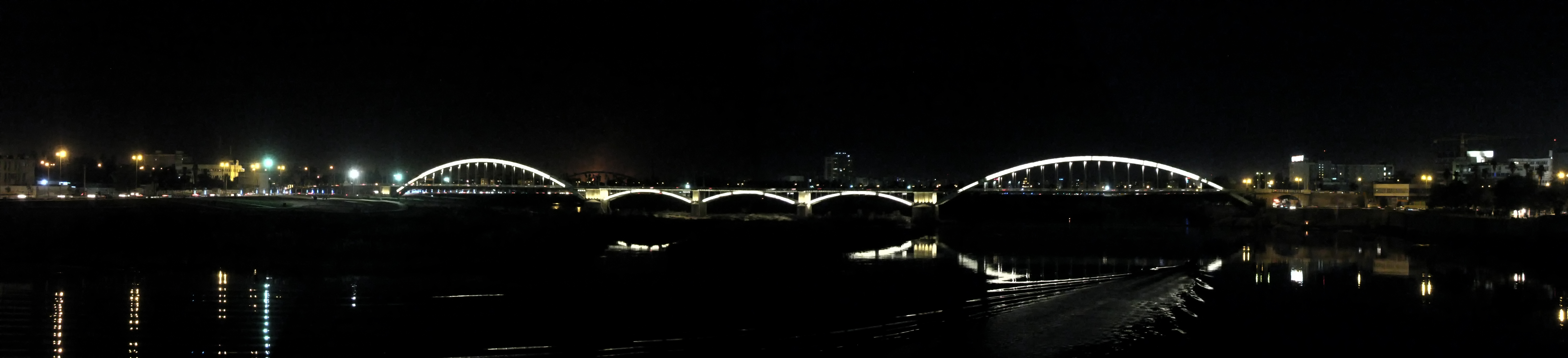 Panoramic view of the ahvaz